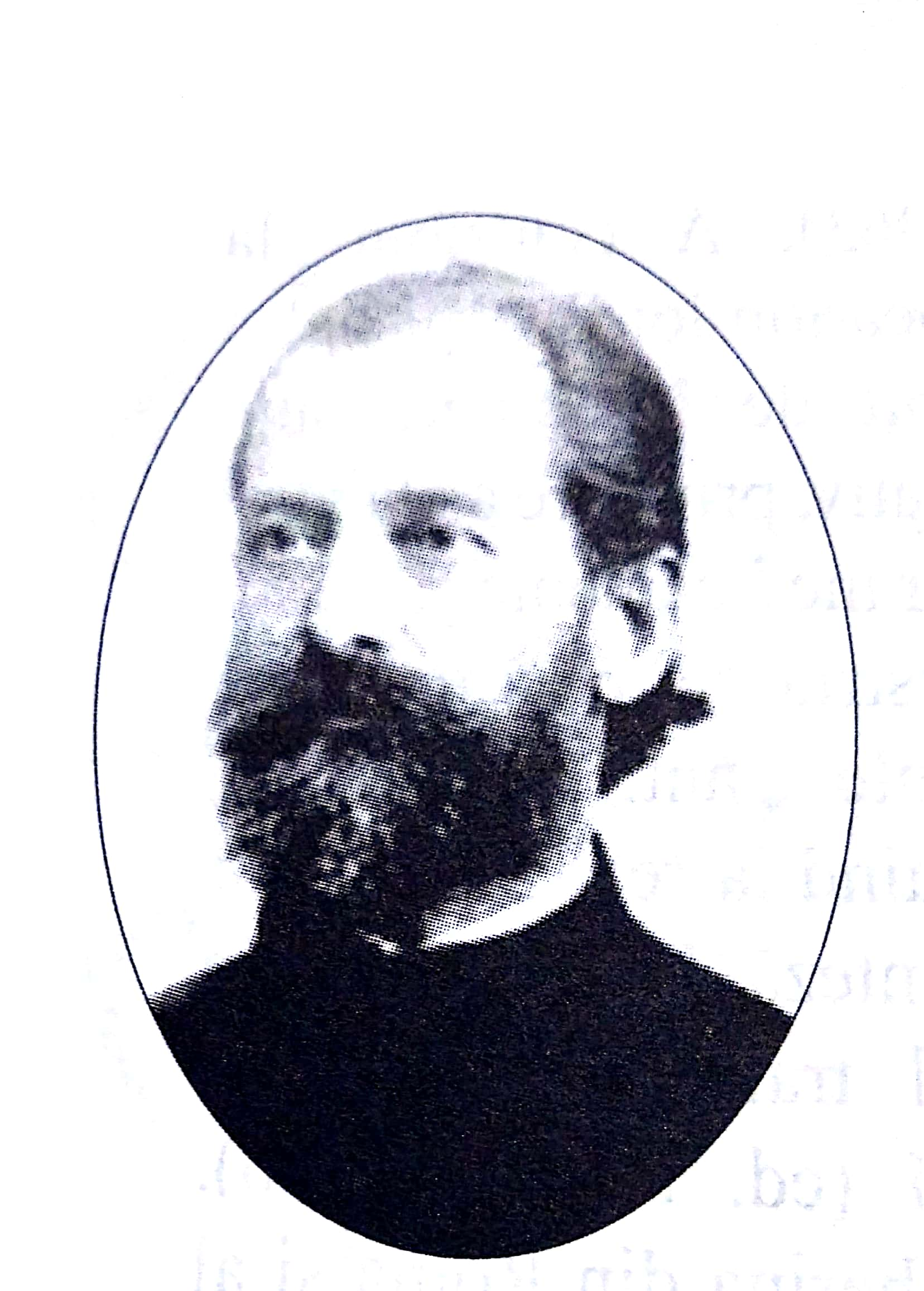 Romanian Orthodox Bishop Roman Ciorogariu, member of the Great National Assembly from Alba IuliaRomână: Roman Ciorogariu, membru în Marea Adunare Națională de la Alba Iulia, organismul care a decis unirea Transilvaniei cu România